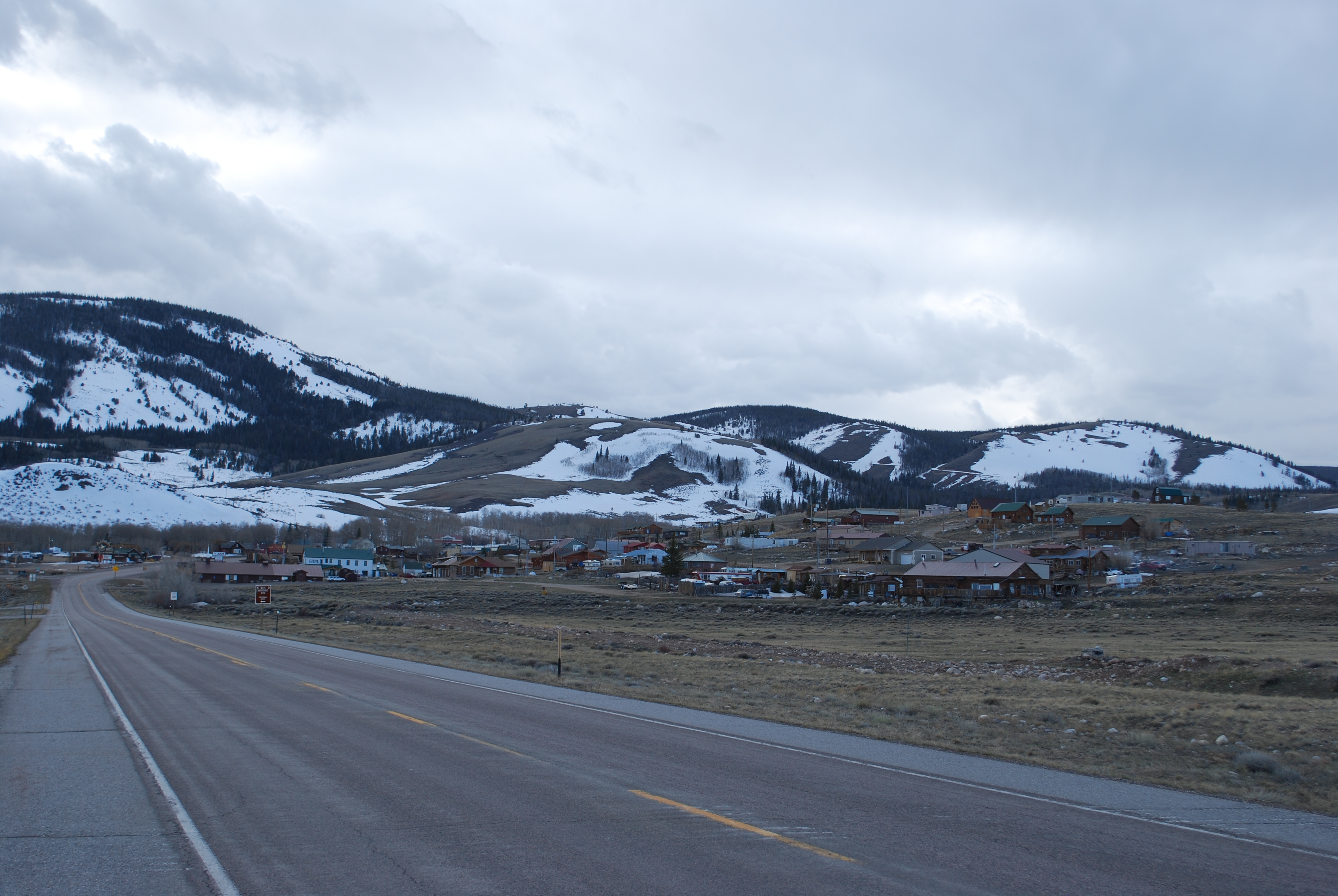 Wyoming 130 looking toward the town of Centennial, Wyoming.